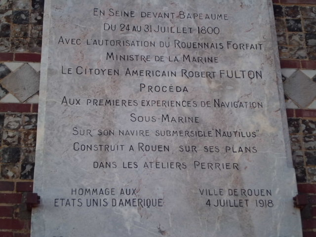 Commemorative plaque to Robert Fulton, Rouen, Normandy